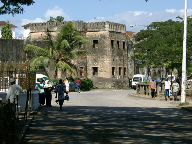 The old Fort in Stone Town, Zanzibar was startet to build in 1698. Photo taken 2004 by Matthias Krämer.